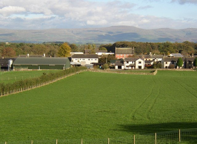 Eamont Bridge from Mayburgh Henge (2), Yanwath and Eamont Bridge Another view across the fields. For close-up of the pink-washed 17C house see 273936